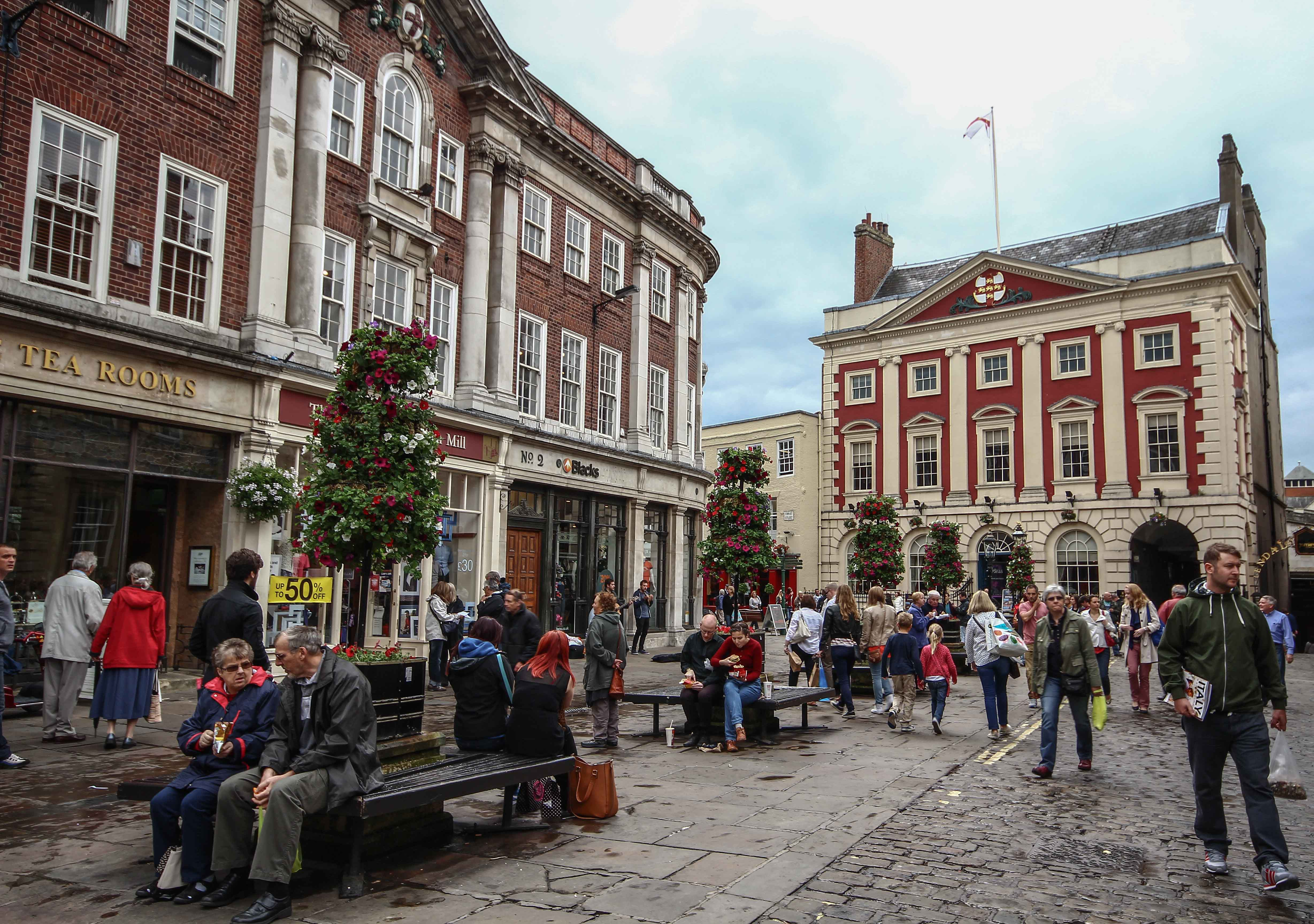 The Mansion House, St Helen's Square, York